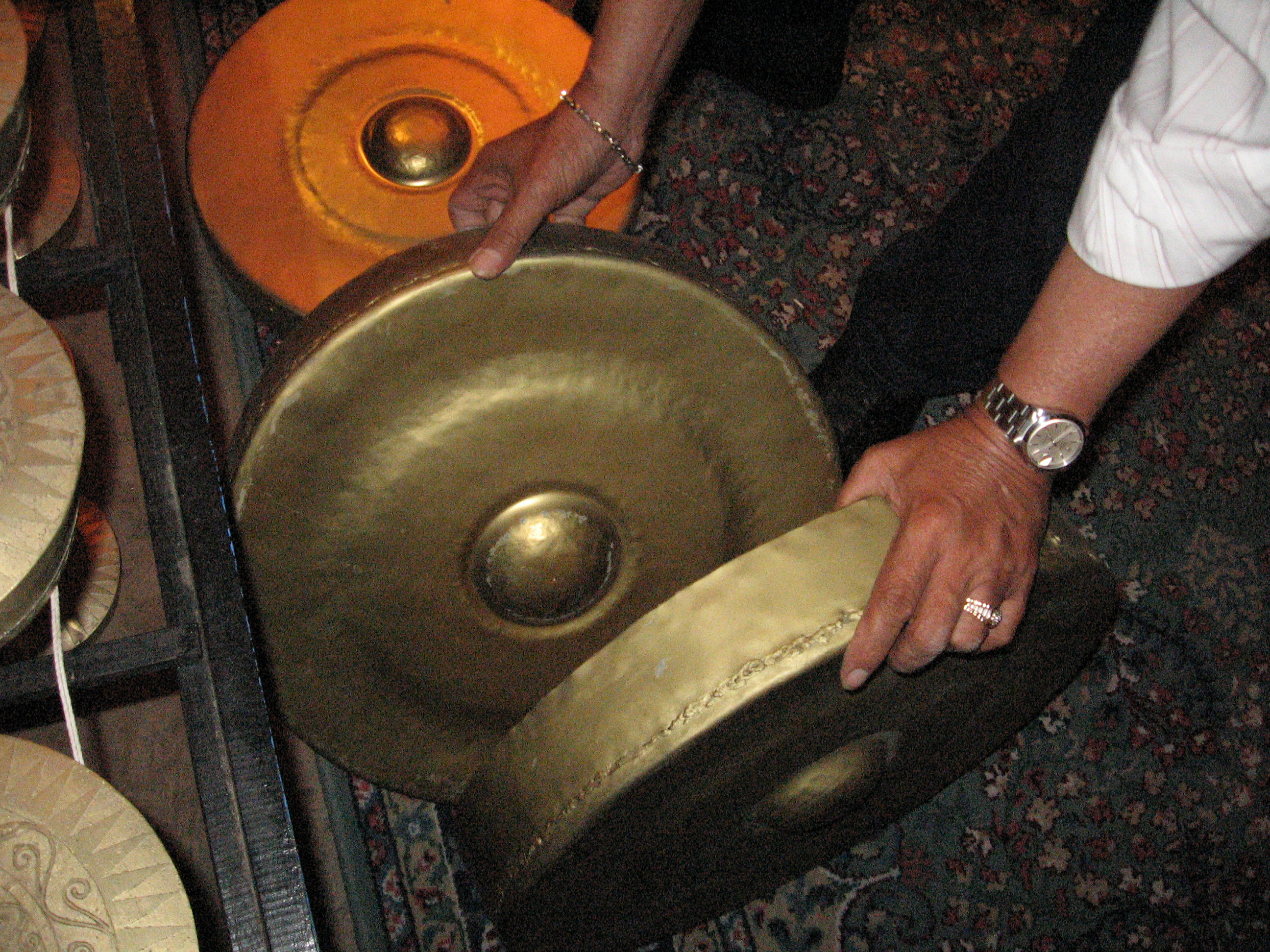 The four Philippine vertically hanged gongs known as the gandingan used as a secondary melodic instrument in the kulintang ensemble, being shown here with the smaller gongs placed inside the larger ones.